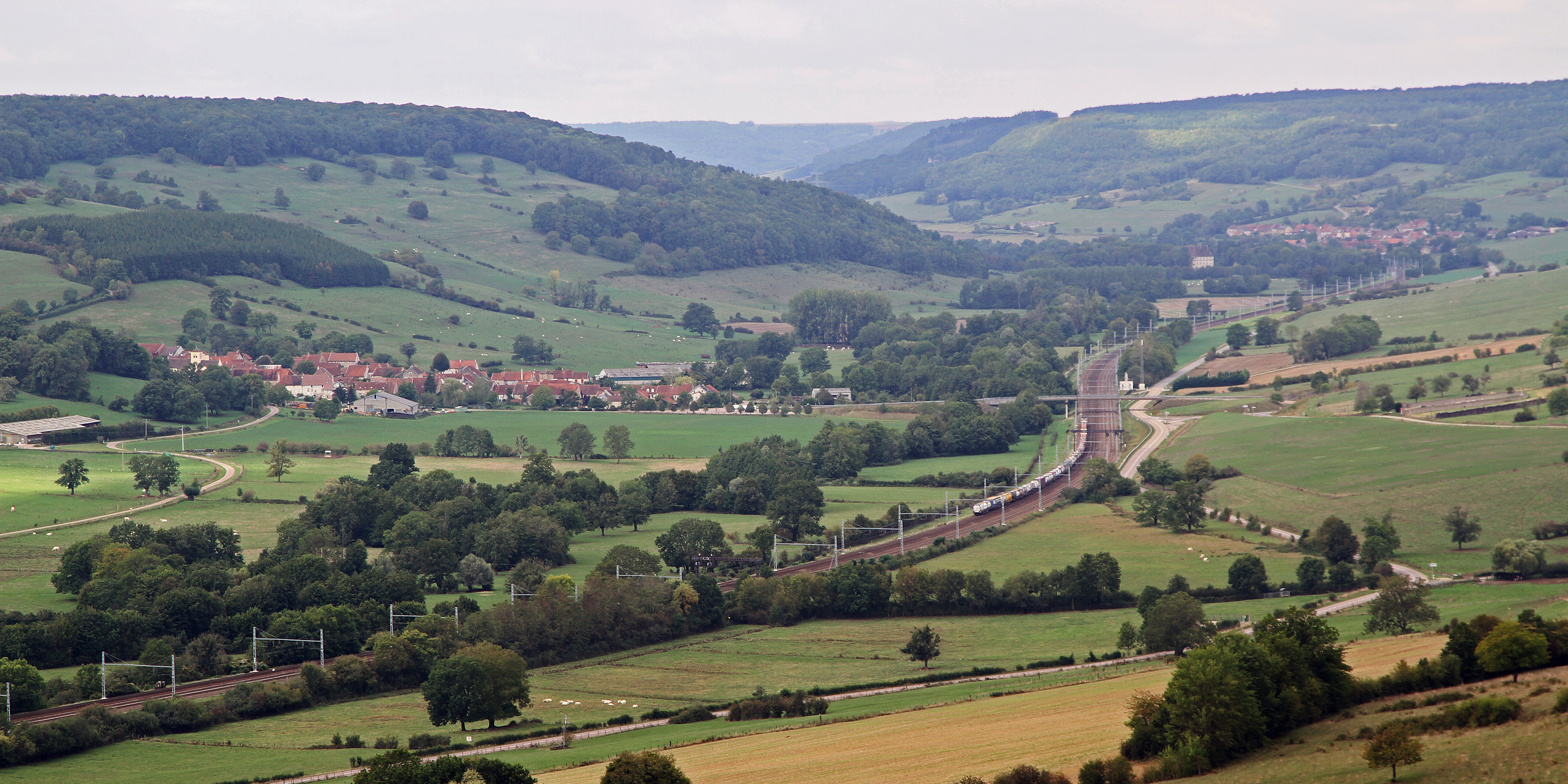 Boux-sous-Salmaise village, Oze valley and rail line Paris-Lyon-Marseille; view from the Salmaise castle.